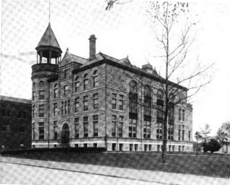 Photo of Larkin Grammar School from H.V. Smith's Chester and Vicinity - published 1914